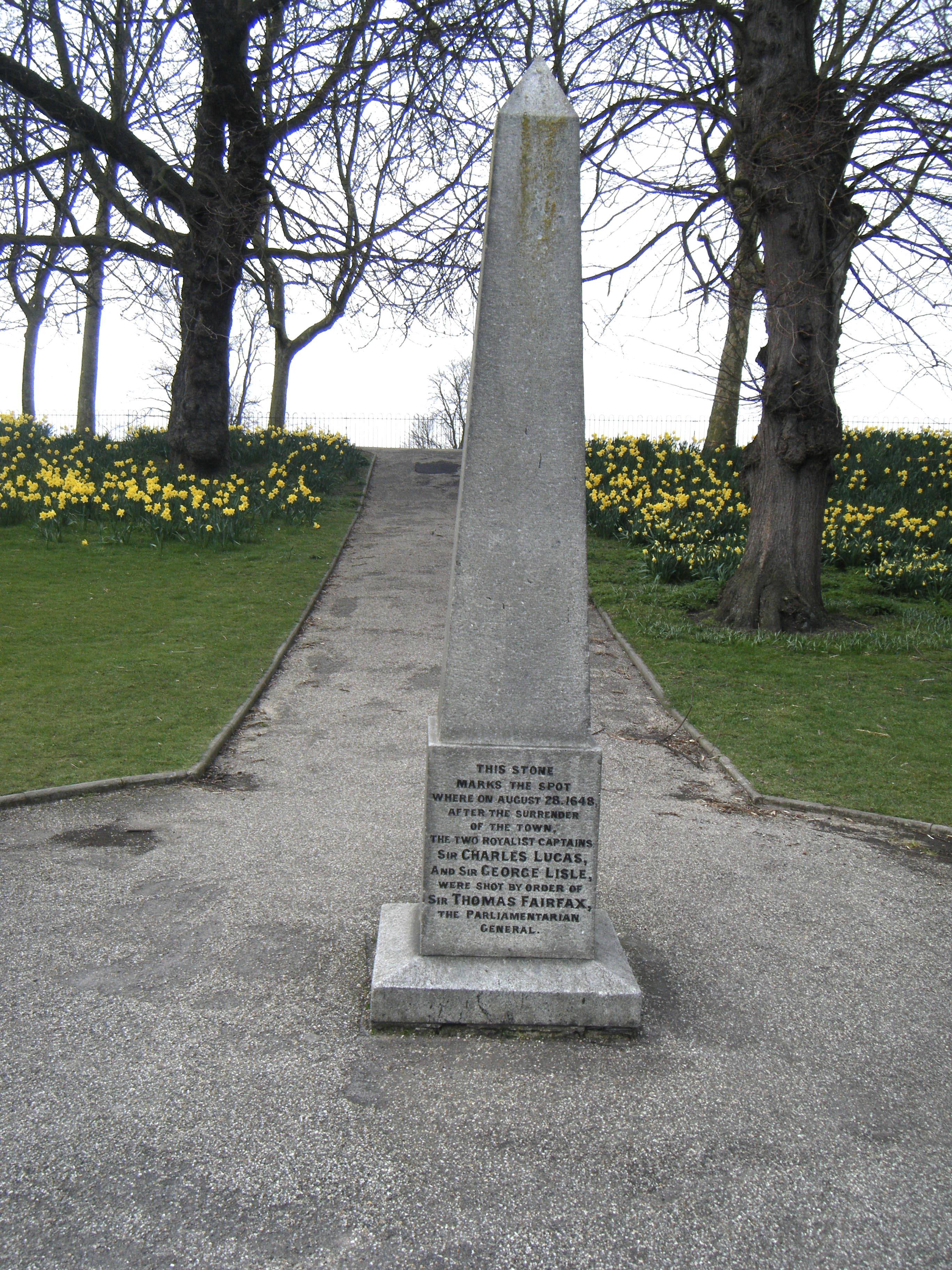 Monument, to rear of Colchester Castle, to Sir Charles Lucas and Sir George Lisle. Inscription (readable on enlargement of image): "This stone marks the spot where on August 28.1648, after the surrender of the town, the two Royalist Captains Sir Charles Lucas and Sir George Lisle, were shot by order of Sir Thomas Fairfax, the Parliamentarian General."